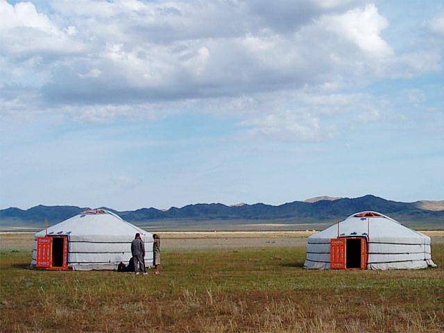 Two yurts (gers) in the mongolian steppe